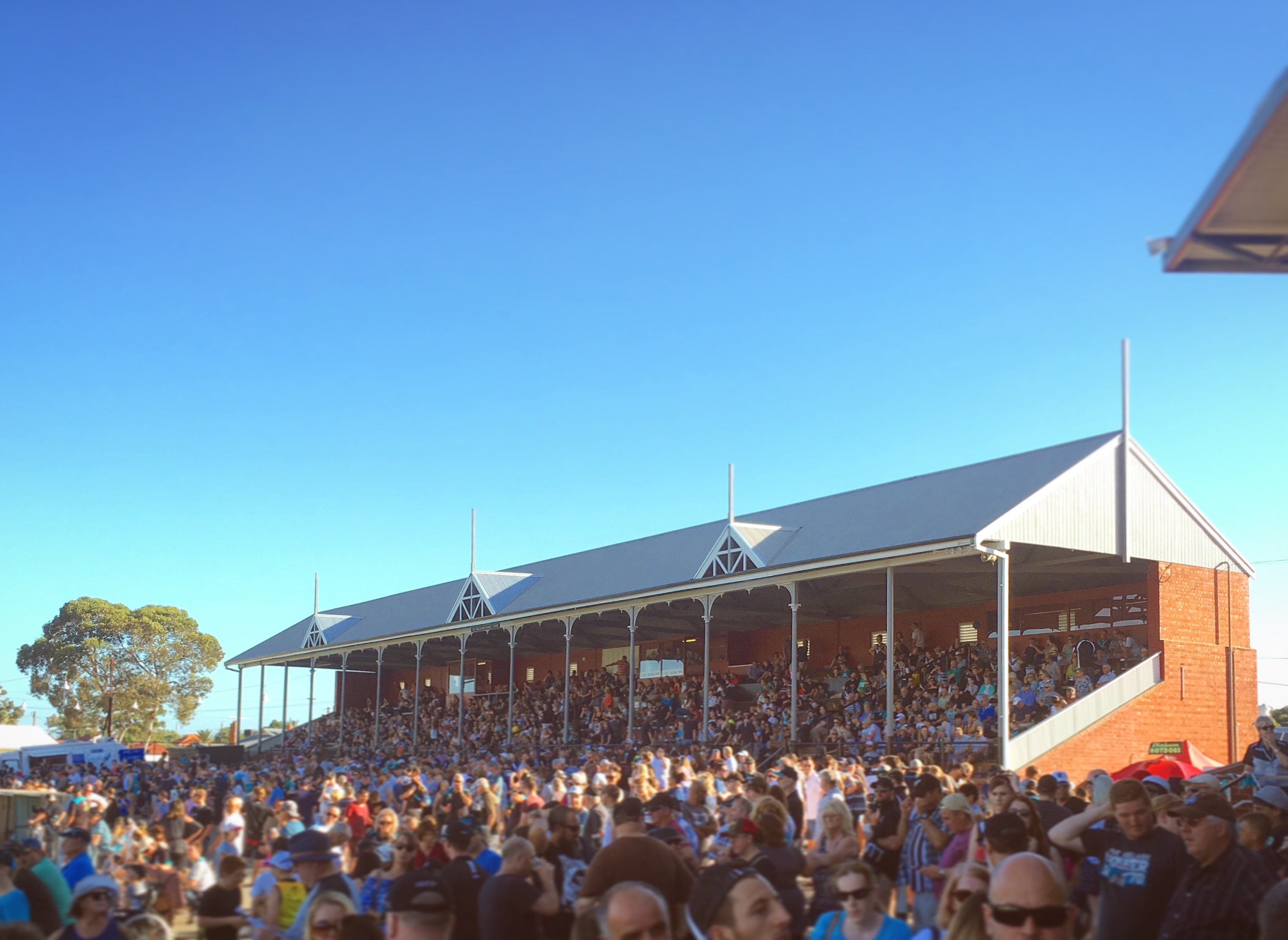 Photo of the Williams Family Stand at Alberton Oval in 2018.